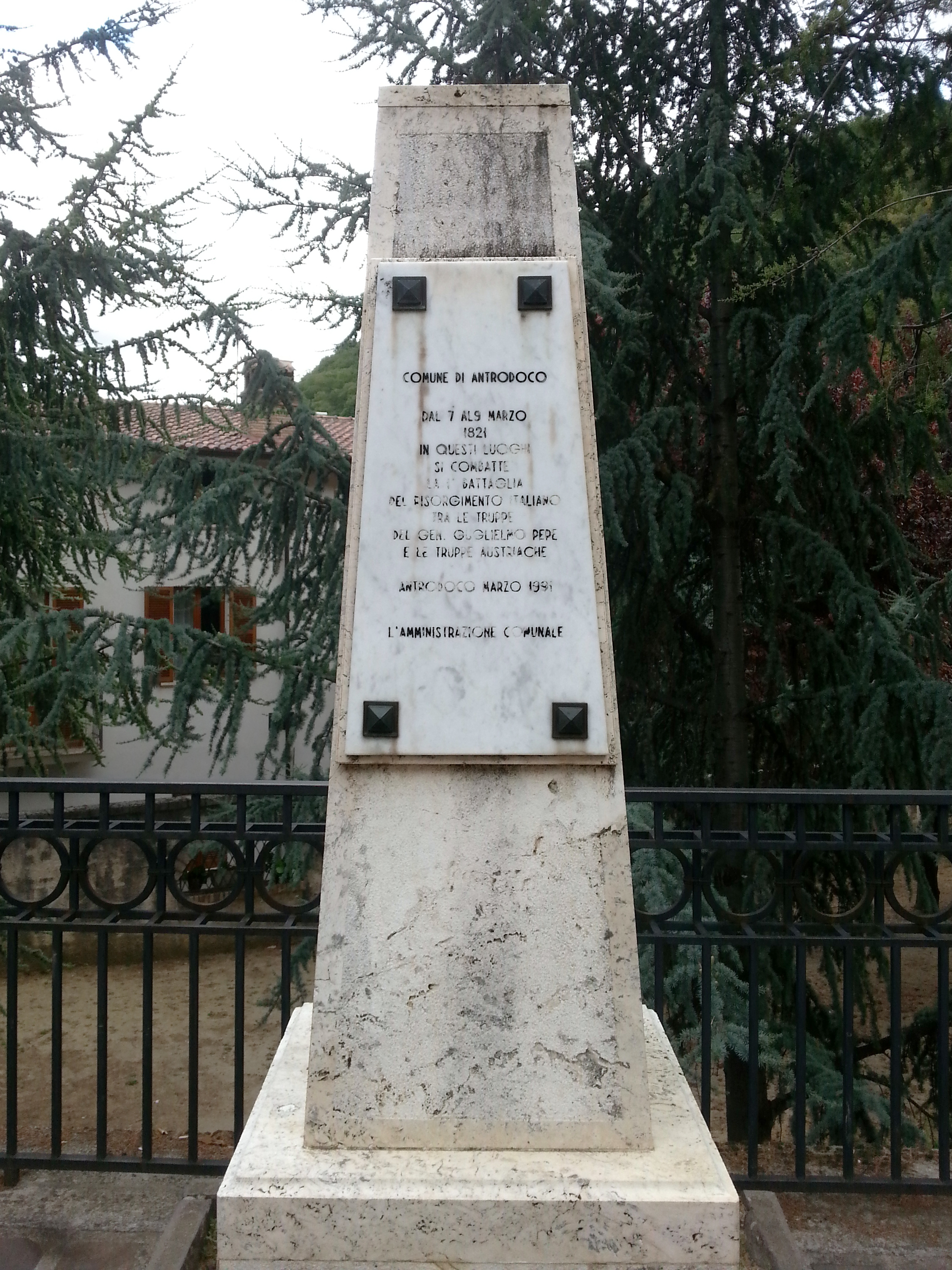 Monument placed in Antrodoco (province of Rieti, central Italy) in Marconi square, built by the municipal government in March 1991, which commemorates the 1821 Antrodoco battle